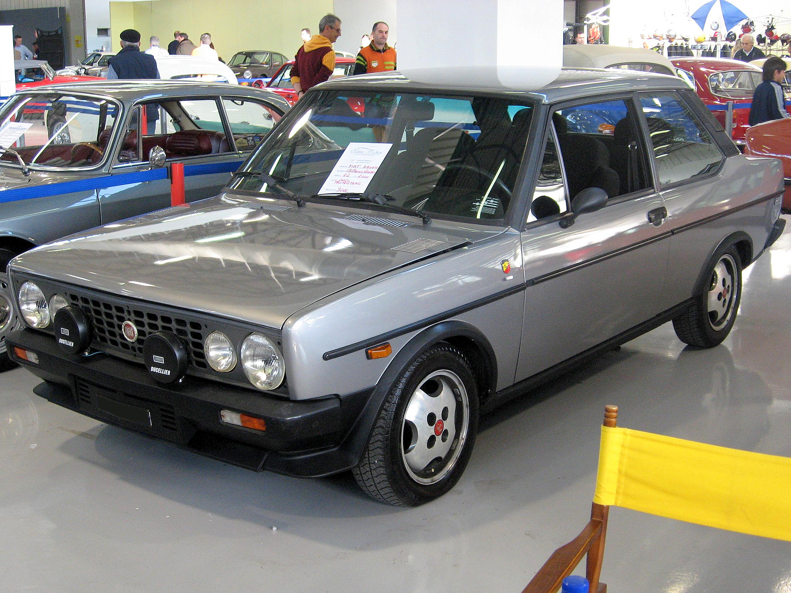 Subject: Fiat 131 Abarth Racing Volumetrico del 1981 Author:Luc106 Date:18 march 2007 City/Country: Forlì (Italy) Event: Old Time Show I release all rights in the public domain.